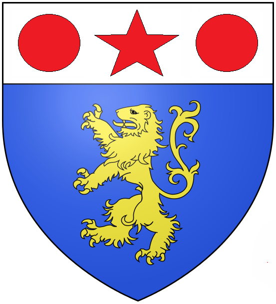 Arms of Smith of Isleworth, Middlesex (Smith Baronets): Azure, a lion rampant or on a chief argent a mullet gules between two torteaux (Image of Smith arms on monument to James Smith (1587-1667) (grandfather of 1st Baronet), Alderman and Sheriff of the City of London, in Hammersmith Church[1]; Pedigree of Smith of Isleworth: Wotton, Thomas, English Baronetage, Vol.4, 1741, p.54[2])